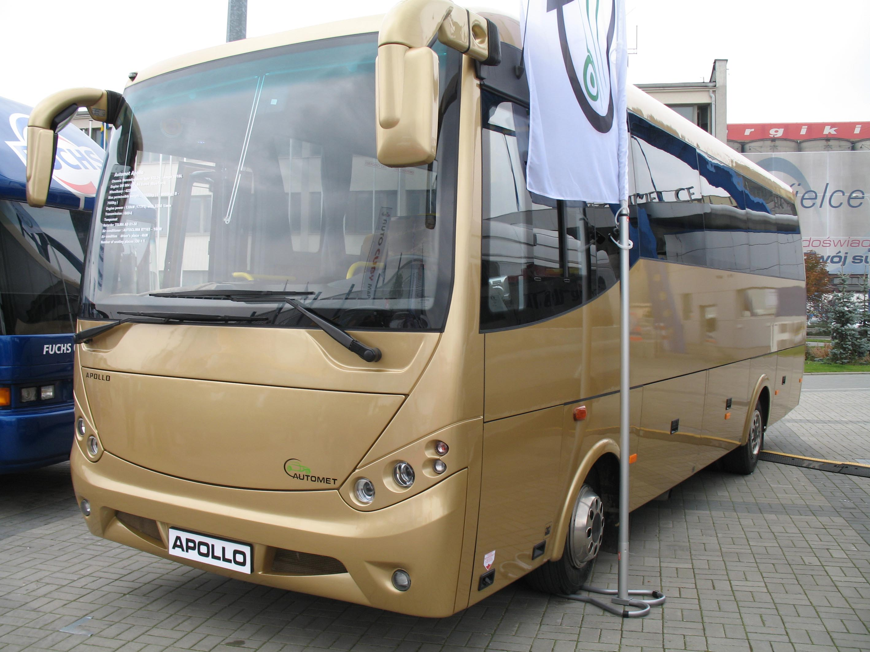 Automet Apollo bus in Kielce, Poland. Transexpo 2008. Base on Mercedes-Benz chassis typ 970.24.